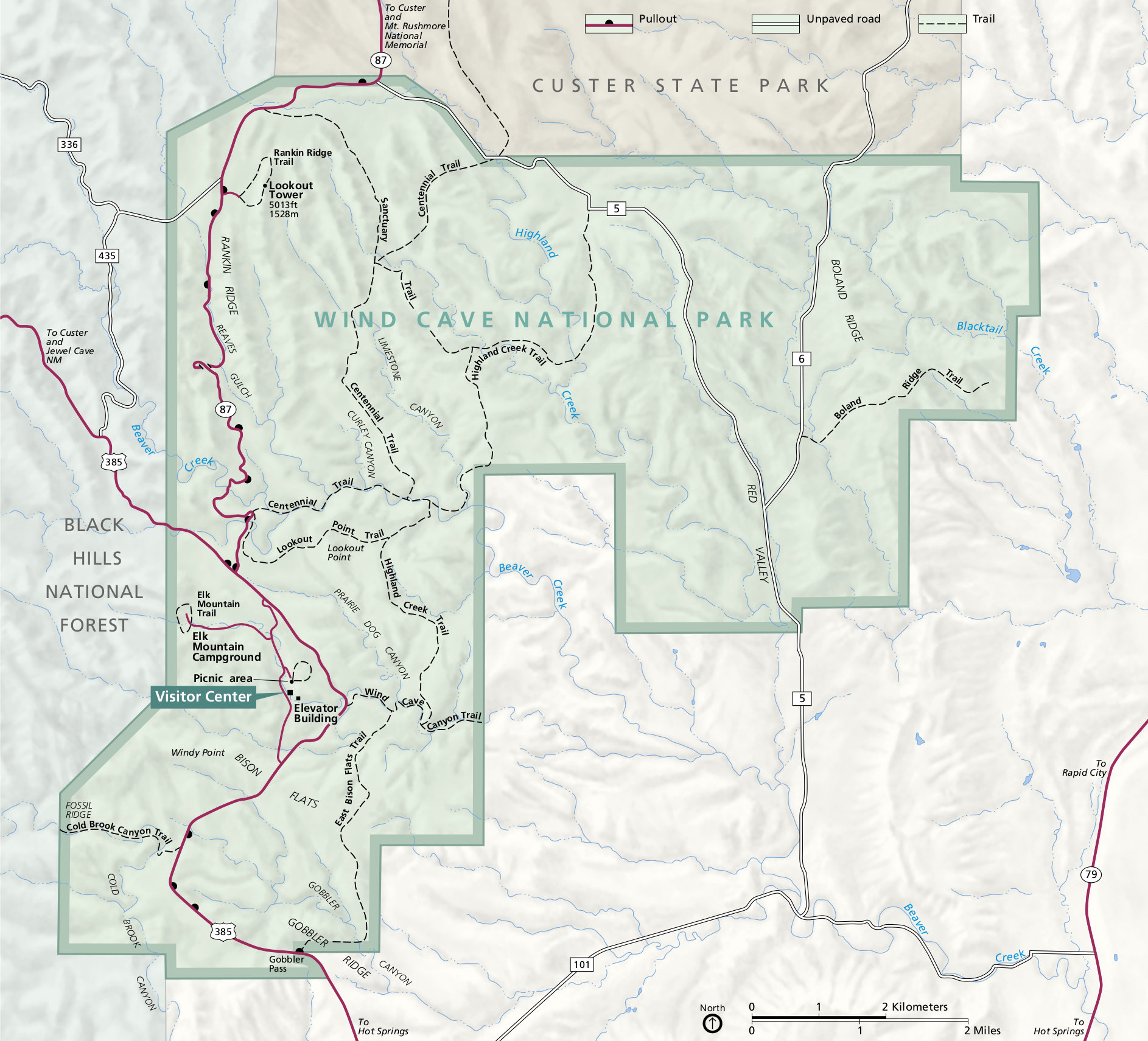 Official Wind Cave National Park map from the brochure, showing roads, trails, campground, and visitor center.